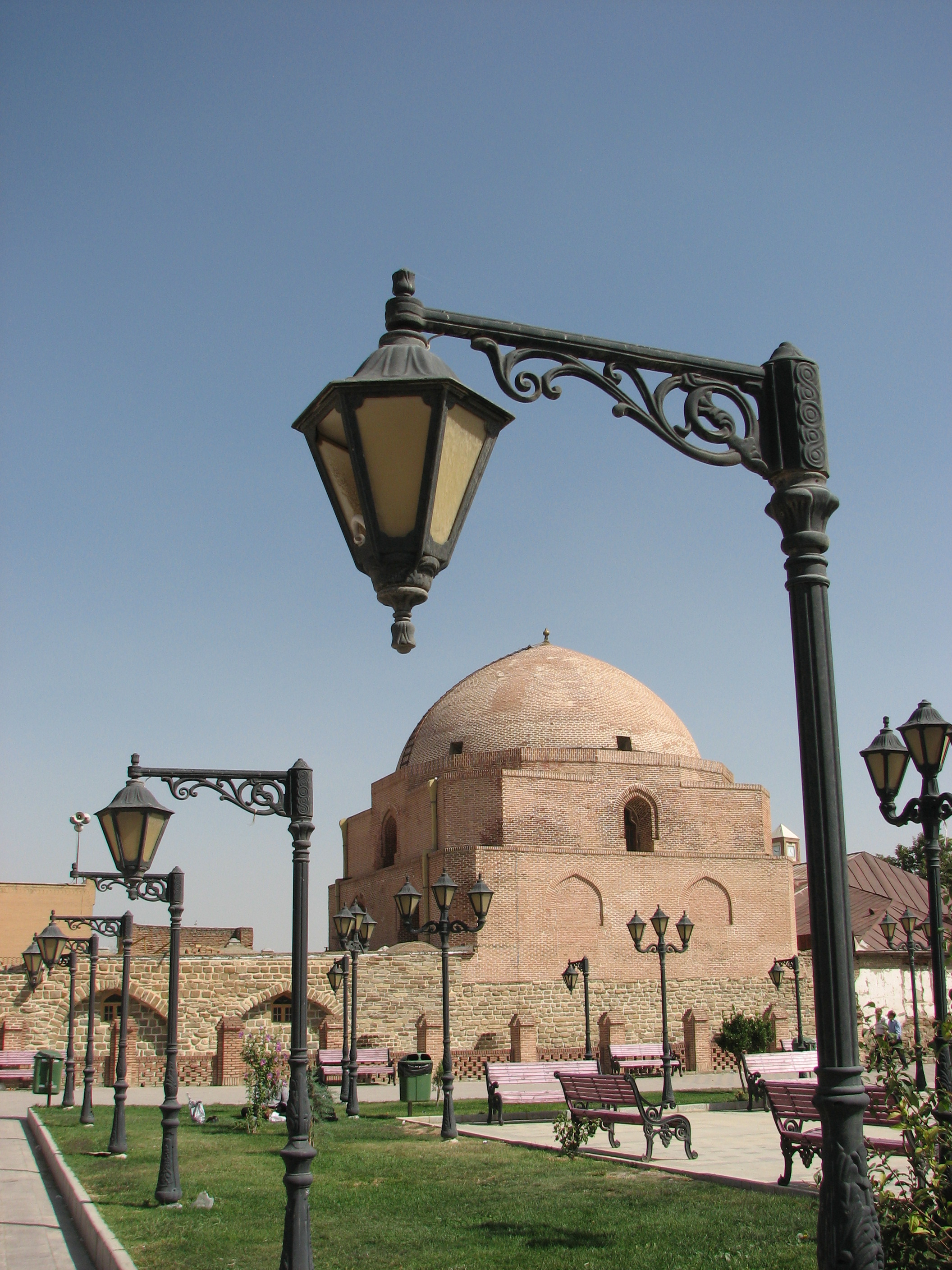 Jame Mosque of Urmia